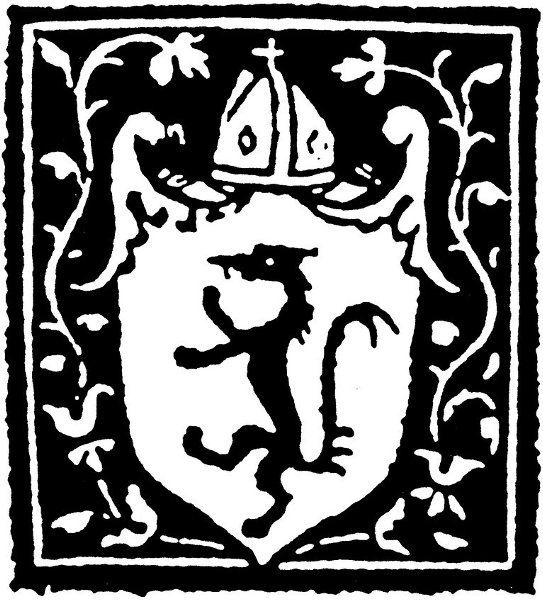 Coats of arms of bishop Simon Begnius (Šimun Kožičić -Benja)